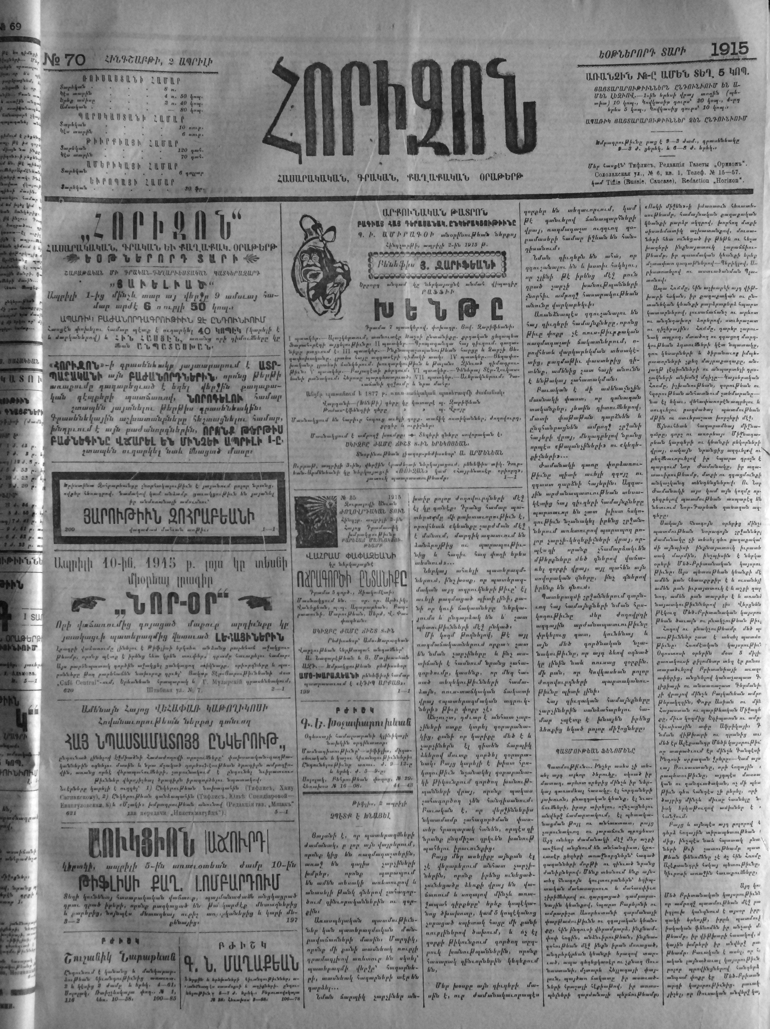 Horizon